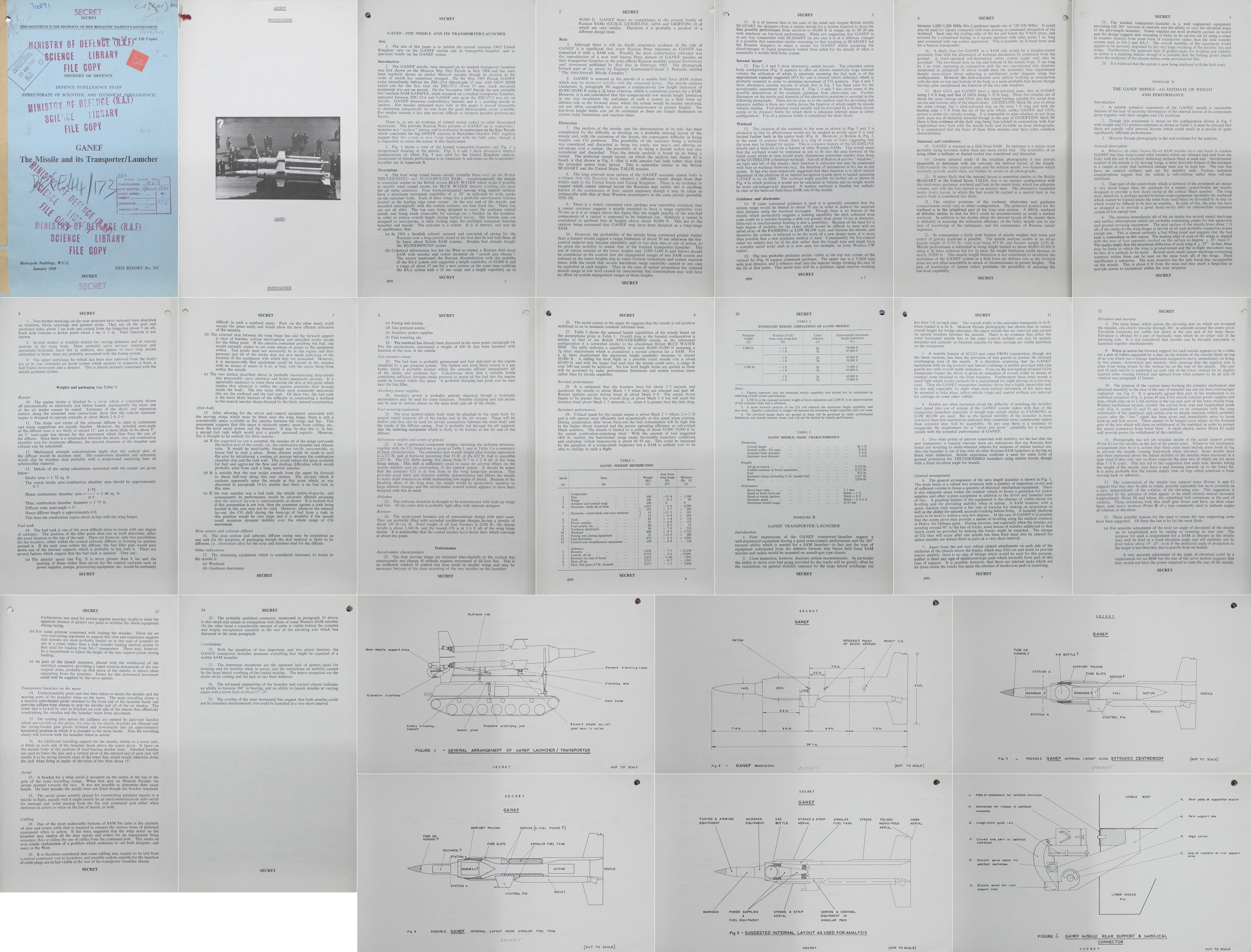 An intelligence assessment of a mobile surface-to-air (SAM) missile carried aboard a truck in the Red Square May Day Military Parade. This montage of photographs of the declassified UK Ministry of Defence intelligence assessment published in DEFE 44/173 is available to view in The National Archives, Kew, London. The image has been stitched together from every page in the report. The report dated 1968, was created by the UK Ministry of Defence based on intelligence, personal observation by Allied embassy military attachés, and photographs taken of equipment seen in a Moscow Red Square May Day Military Parade, and possibly other intelligence sources. The National Archives file is no longer classified and is in the public domain. UK Crown Copyright expired after 50 years.